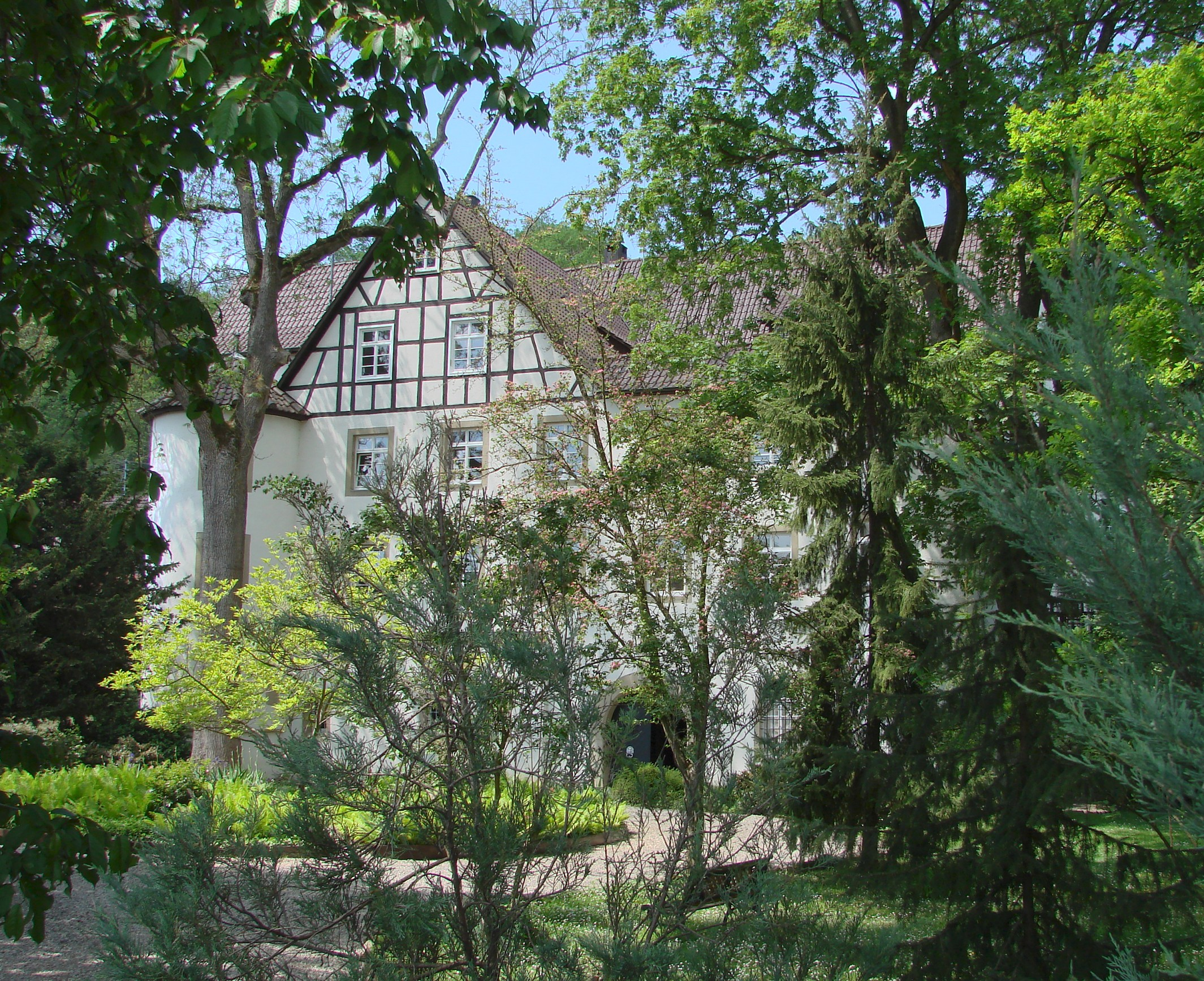 Riet, Germany, the castle